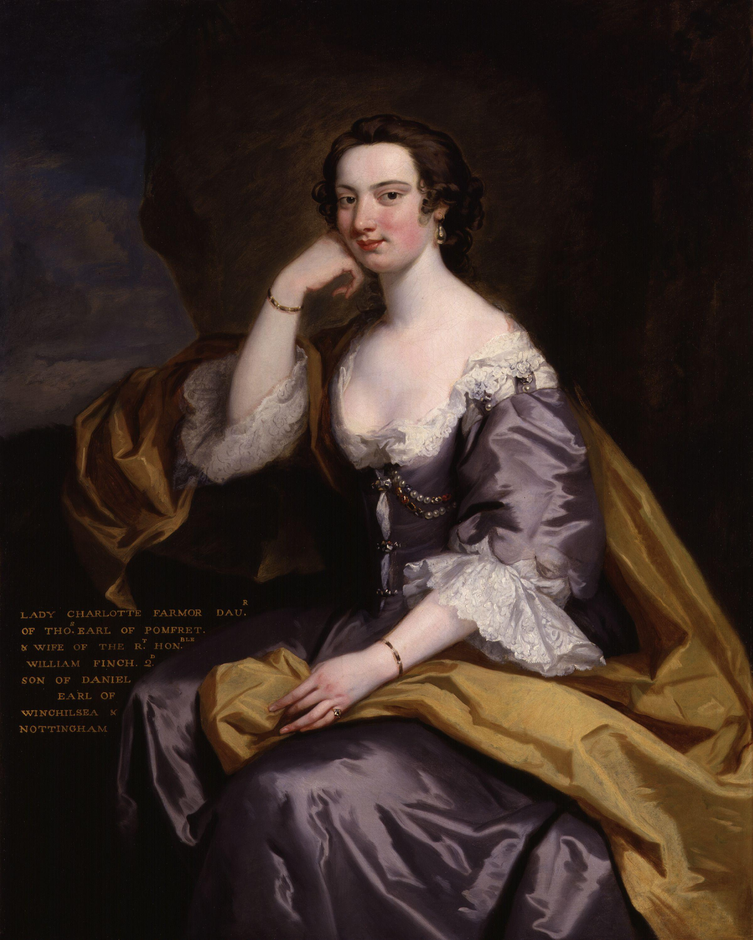 Lady Charlotte Finch (née Fermor), by John Robinson (died 1745). All images in this batch have been confirmed as author died before 1939 according to the official death date listed by the NPG.